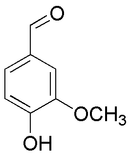 Chemical structure of vanillin.